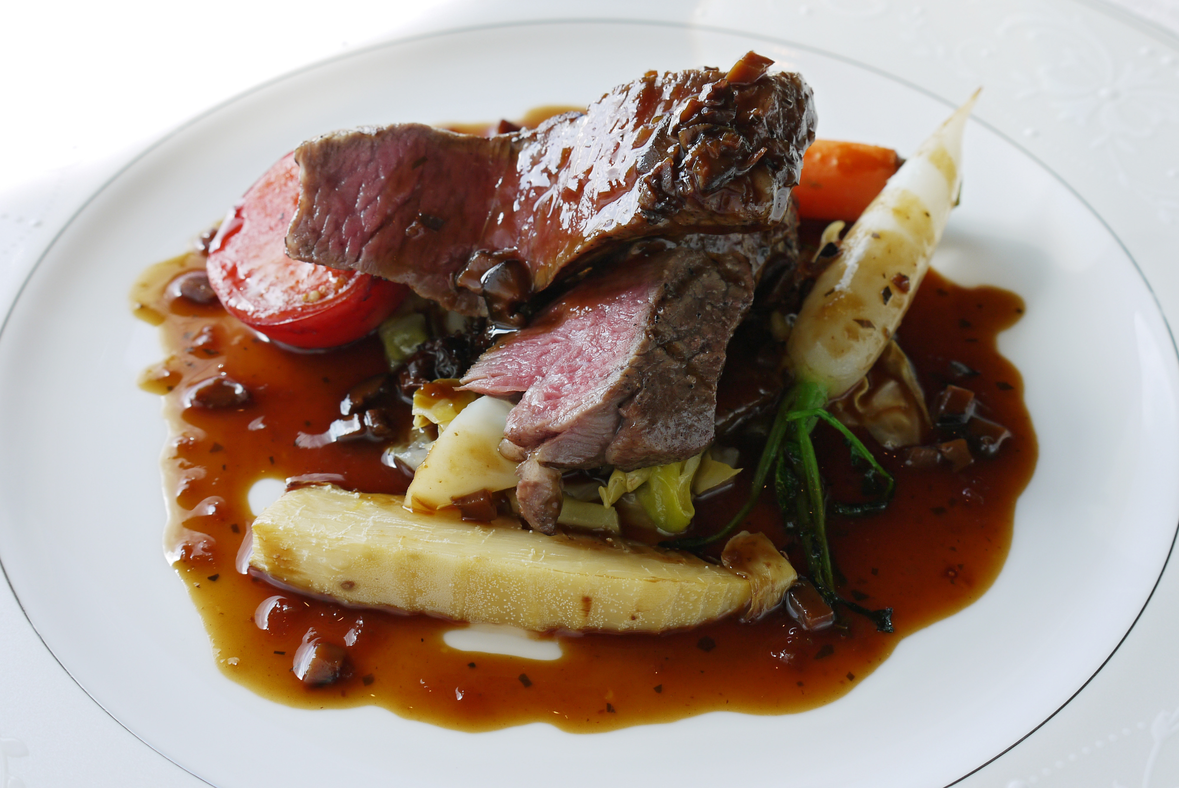 Restaurant LE POINT DE VUE in Omihachiman, Shiga prefecture, Japan.